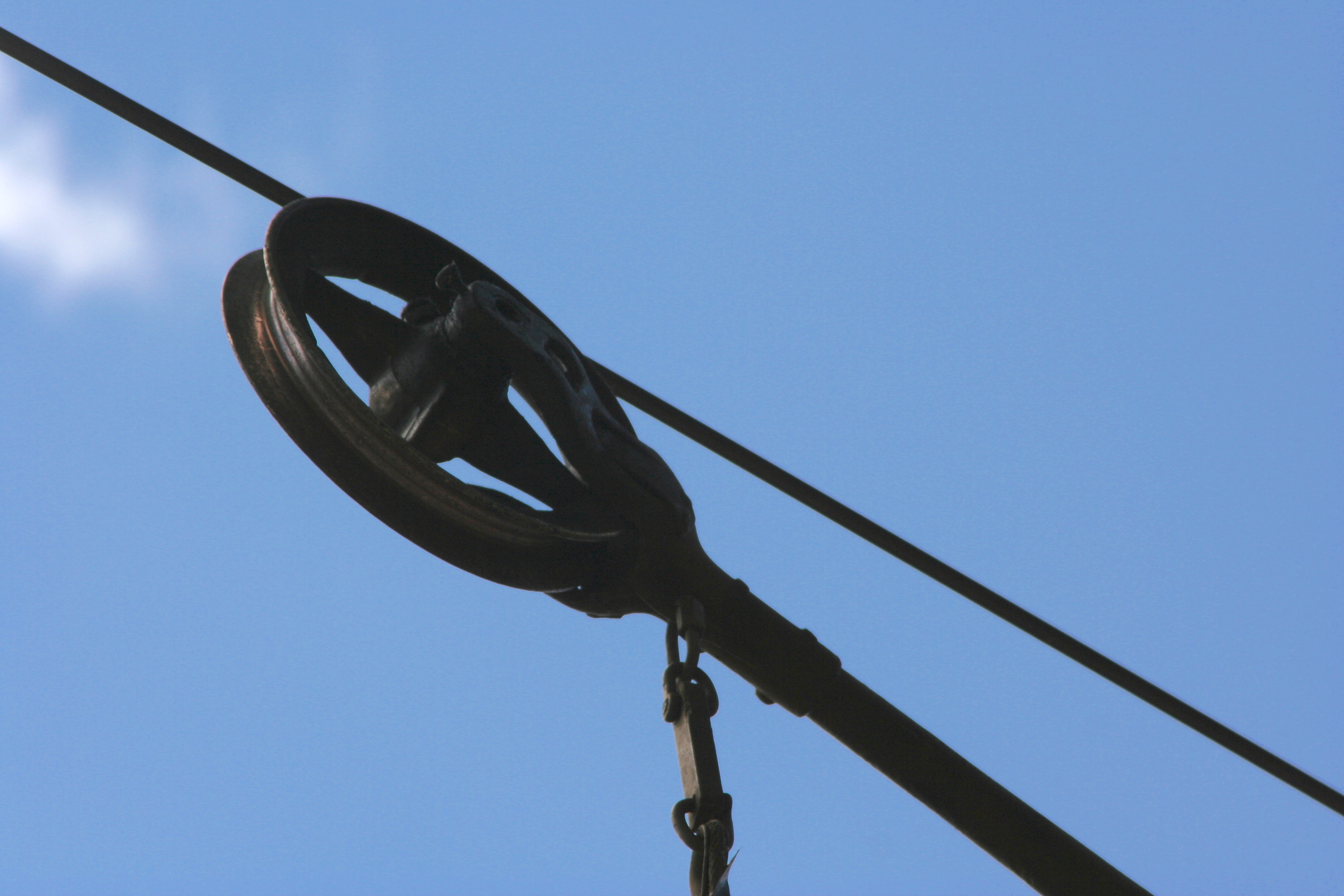 Trolley wheel contacting overhead wire on TCRT 1300.